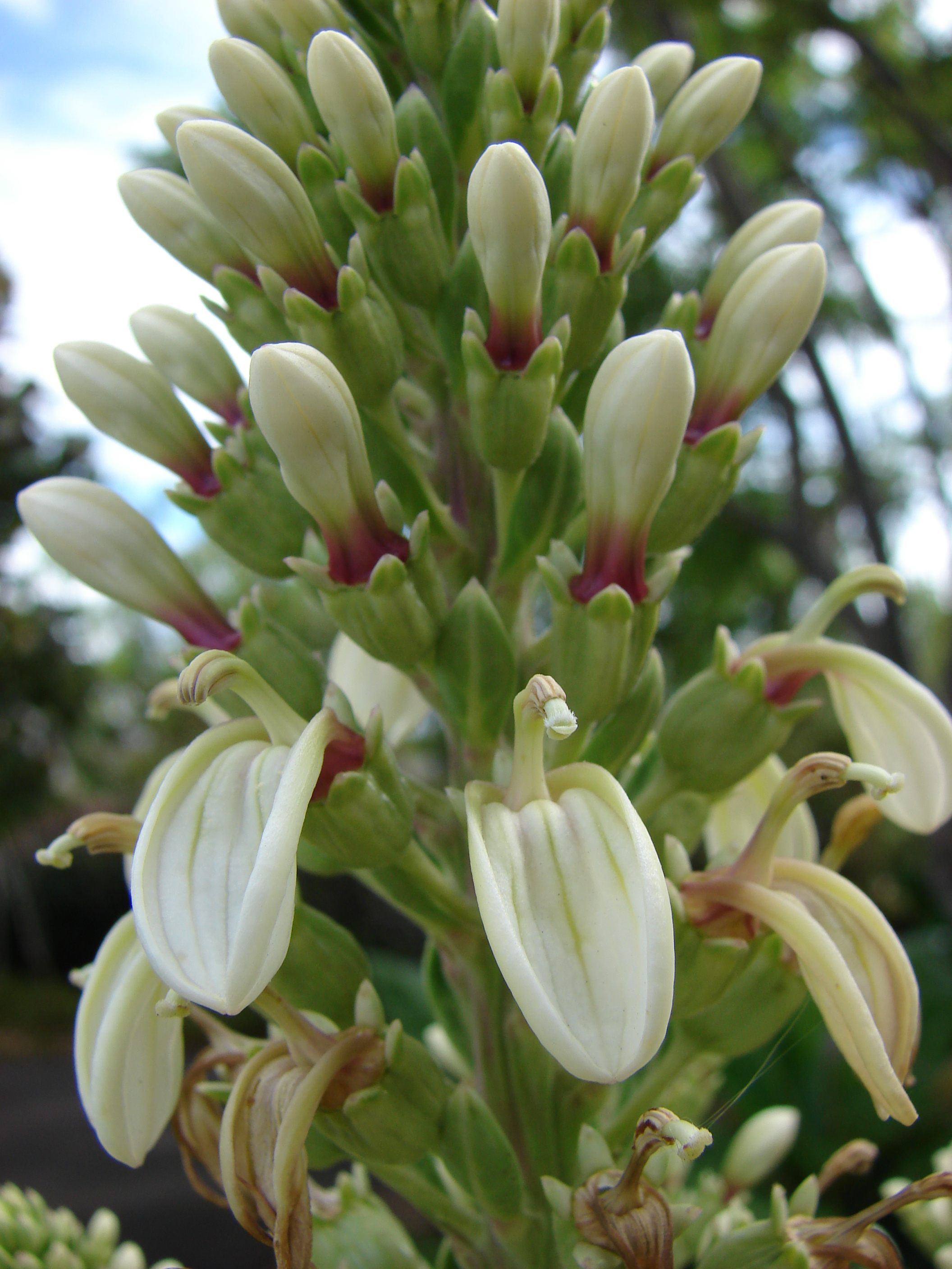 Lobelia boninensis (flowers). Location: Maui, Enchanting Gardens of Kula